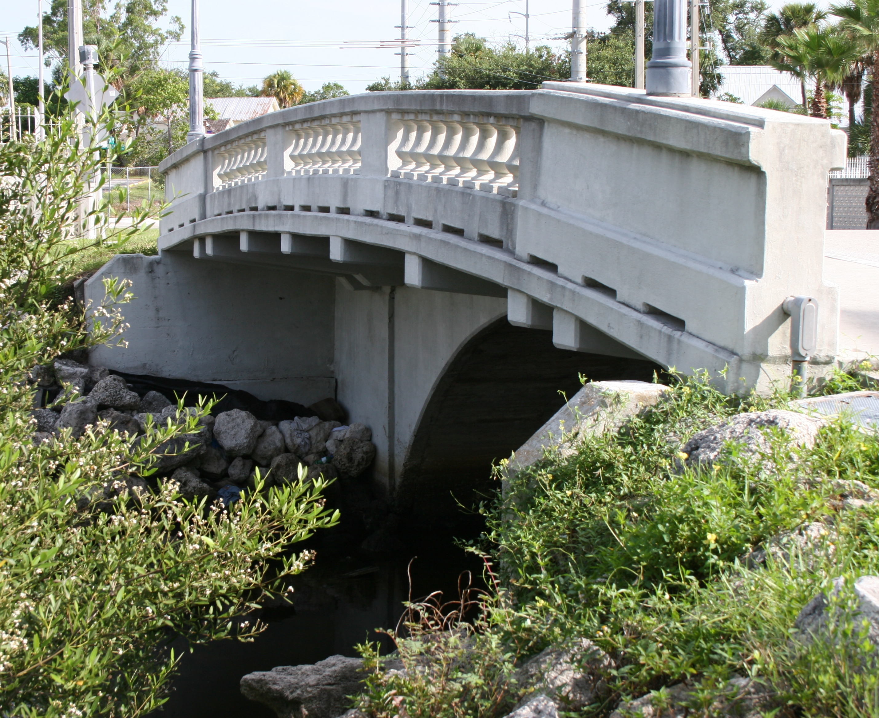 Historic Moores Creek Bridge located in Fort Pierce, Florida. The bridge was built in 1925 by the Luten Bridge Company and is listed as a registered historic site. The bridge is locally known as Tickle Tummy Hill due to its high arch compared to its relatively short span. The bridge had a make-over in 1997 after being closed for a number of years. The bridge is located on 2nd Street just north of Downtown Fort Pierce between Avenues A and C. The bridge is constructed of reinforced concrete and is a single span.